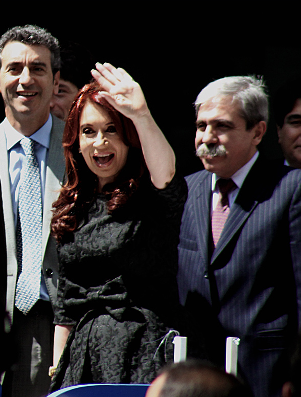 Cristina Elisabet Fernández de Kirchner - Buenos Aires Argentina, October 06, 2011